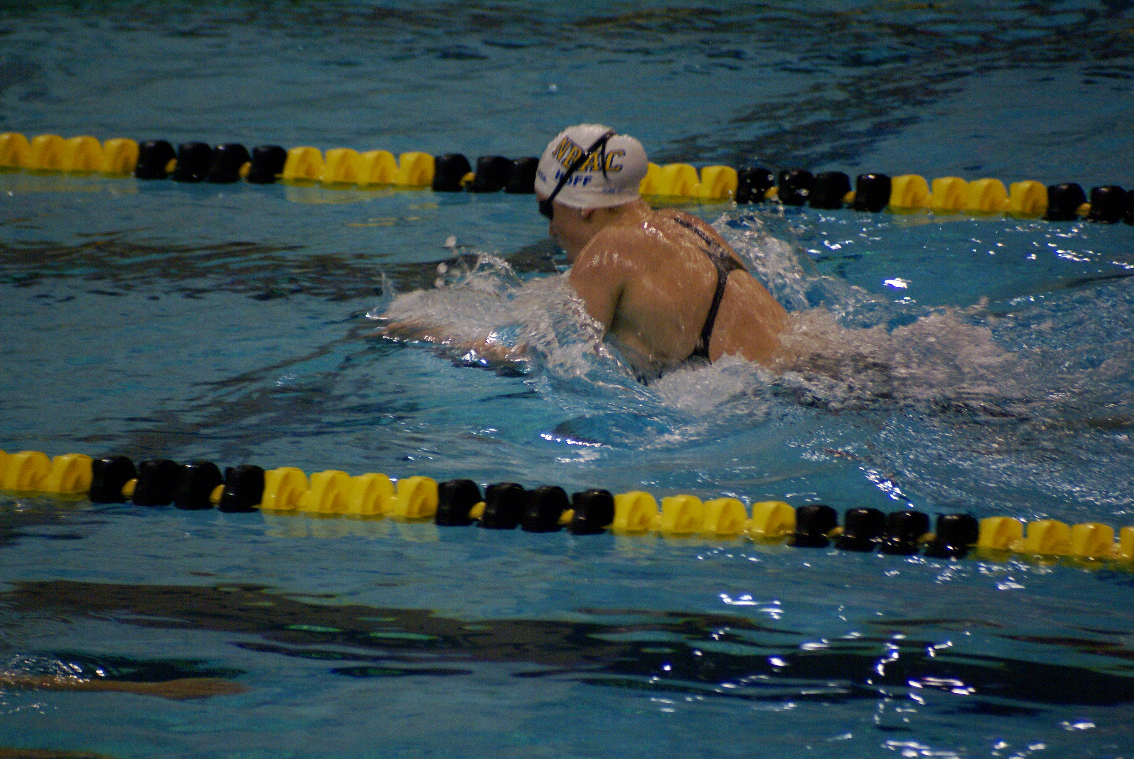 World record holder Katie Hoff swimming the 400 IM.